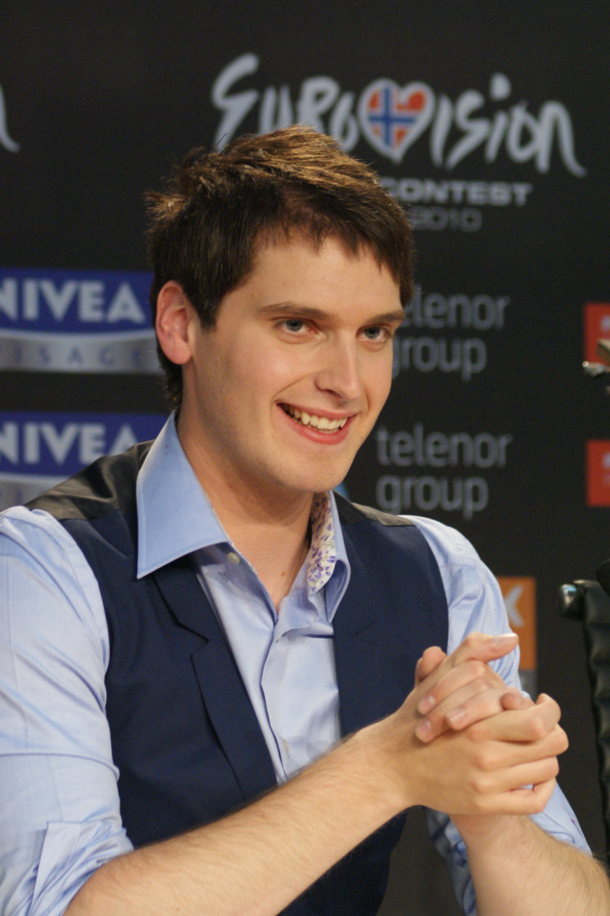 Tom Dice at pressconference in Oslo.